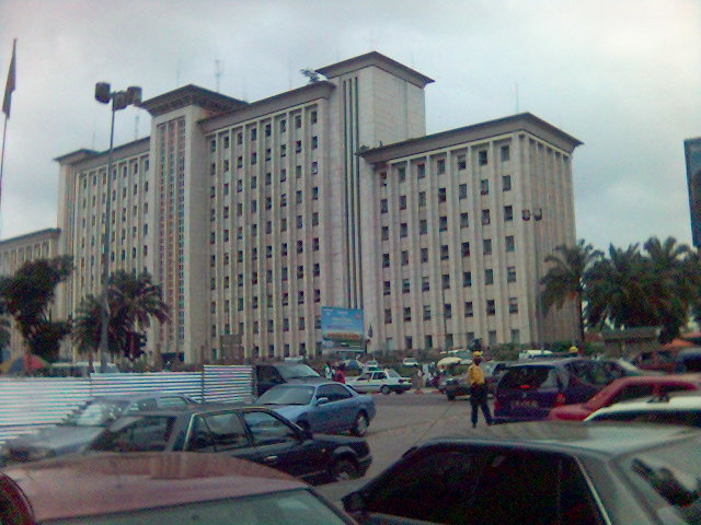 Head office of ONATRA in Kinshasa (east of boulevard du 30 juin)